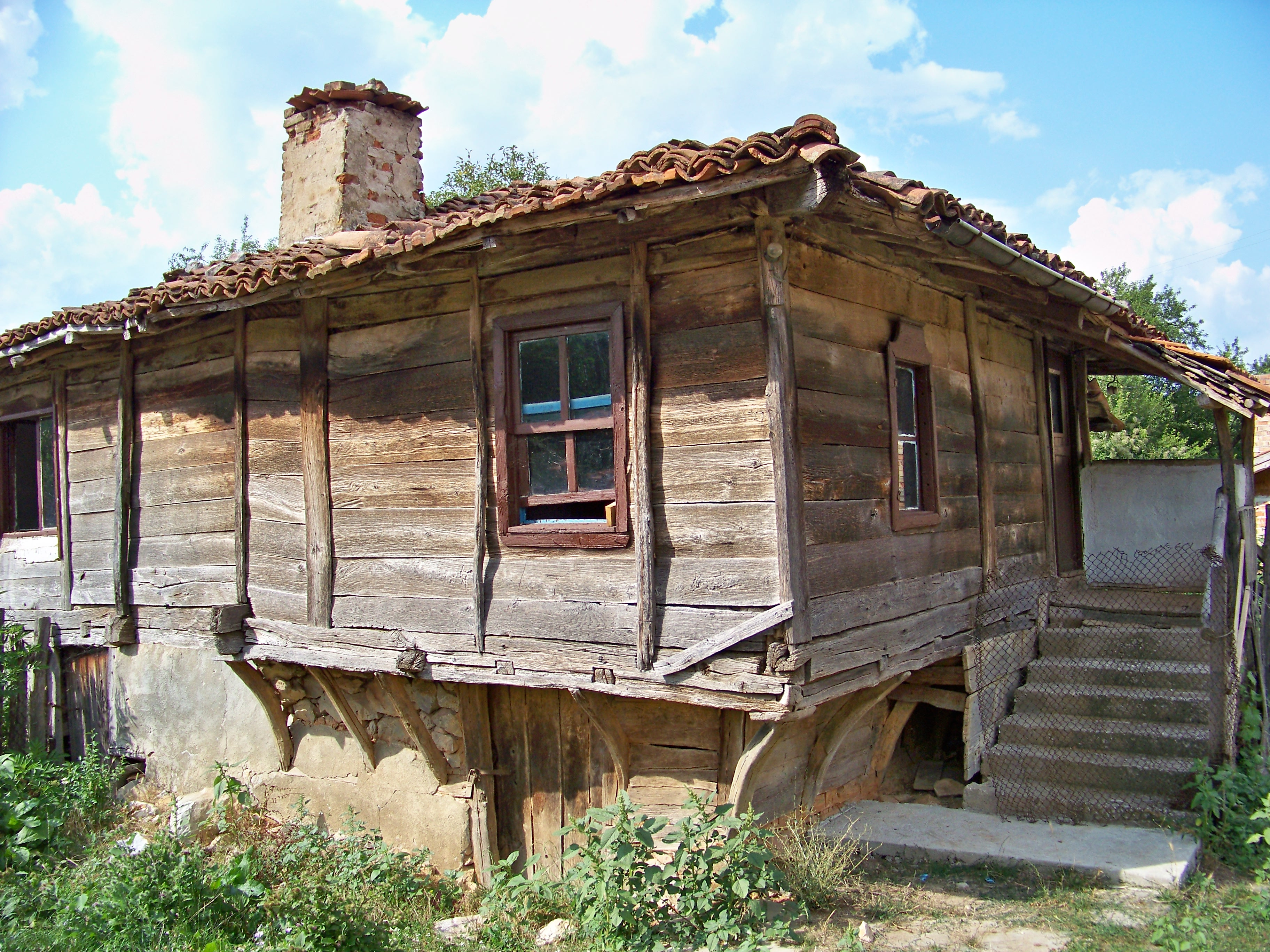 Brashlyan is a village in southeastern Bulgaria, part of Malko Tarnovo municipality.